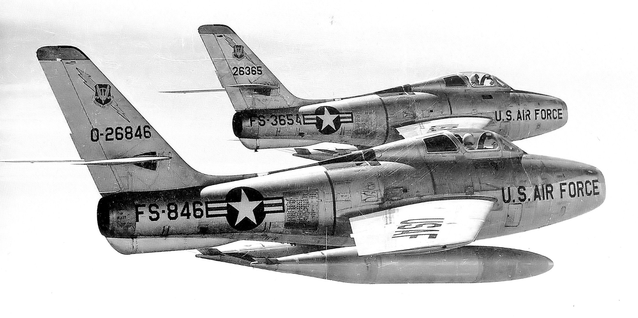 12th Tactical Fighter Wing F-84F Thunderstreaks 52-6846 and 52-6365. 6846 noted Jun 25, 2004 at Kalamazoo Aviation History Museum, MI, painted as 52-5422. 6365 seen at scrapyard in Socorro, NM